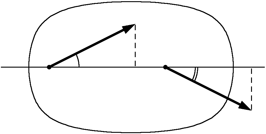 Grashof's theorem in kinematics